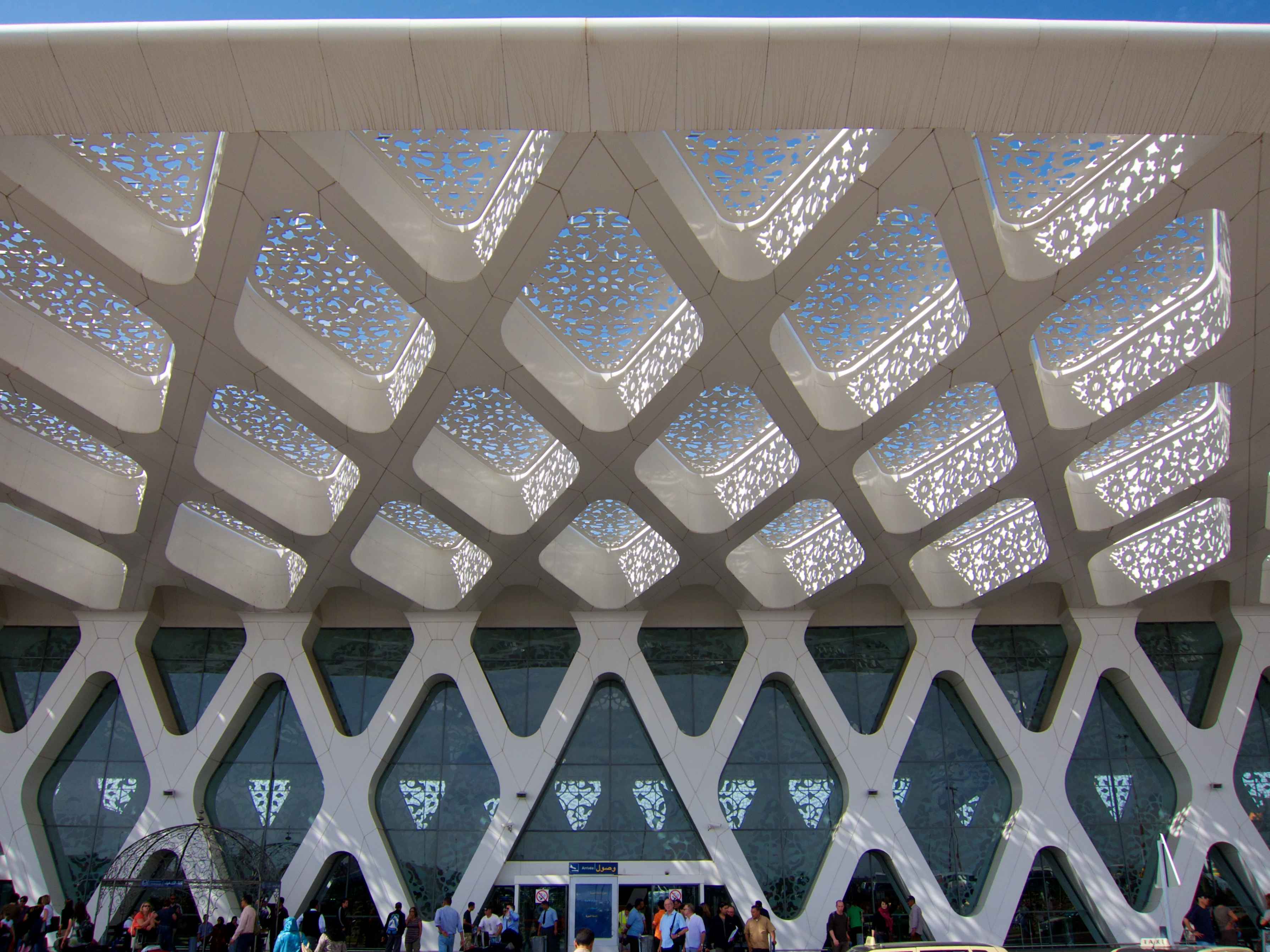 Marrakech Menara Airport